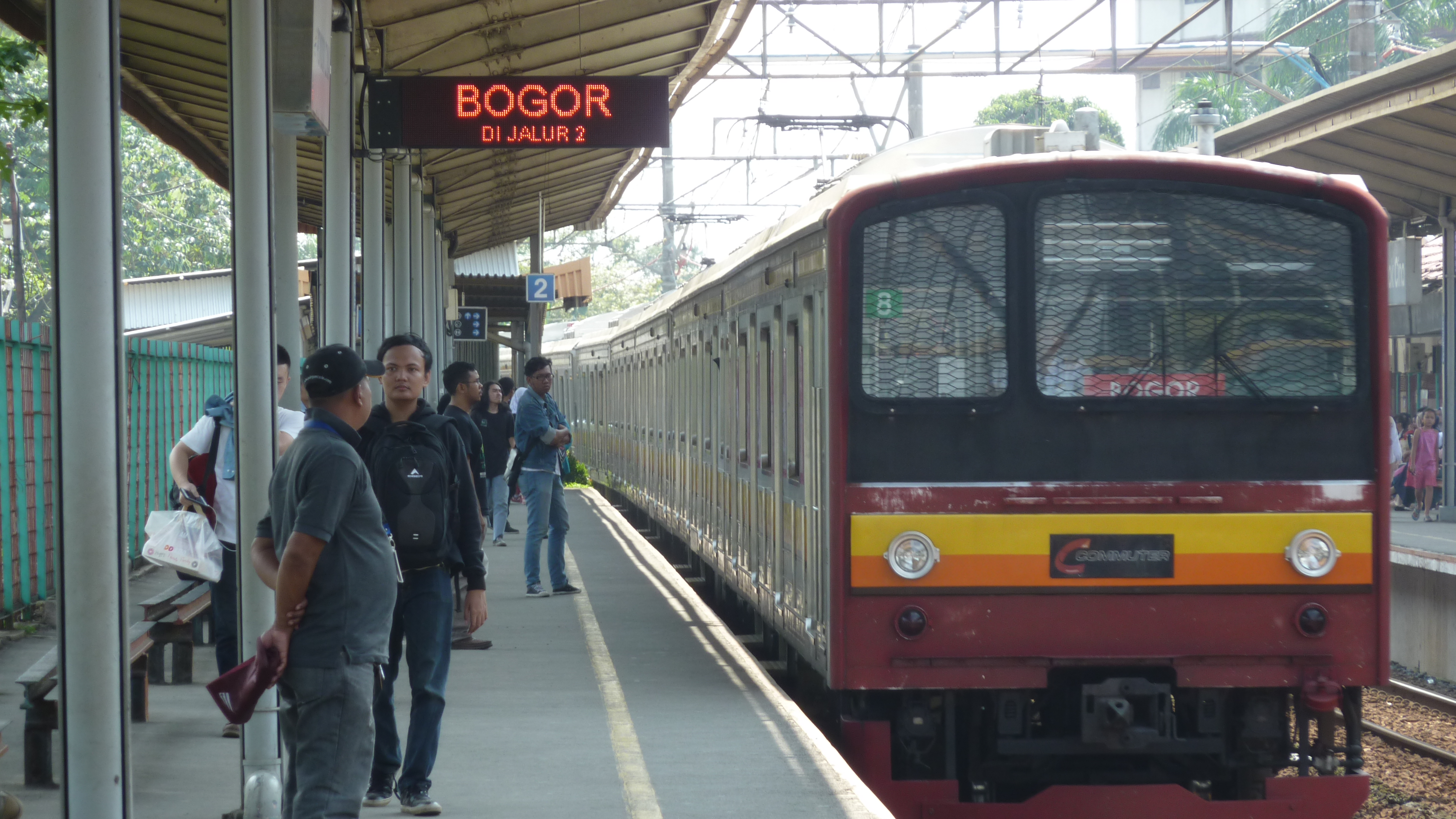 A former JR East Nambu Line 205 series EMU (former set NaHa 8) entering Pondok Cina station heading to Bogor - Depok, Indonesia